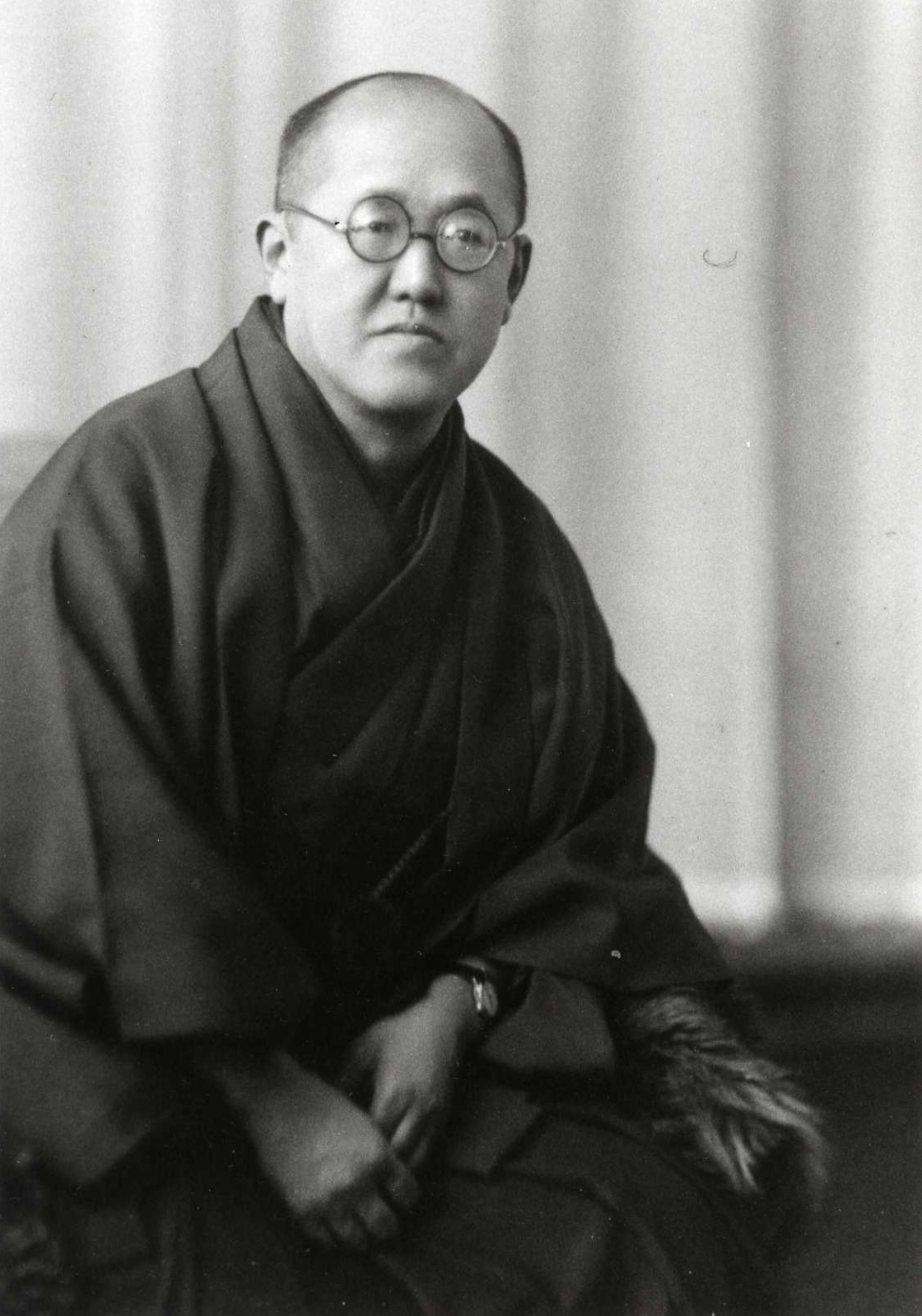 Japanese style painter and woodcut print maker, Hasui Kawase (1883-1957)